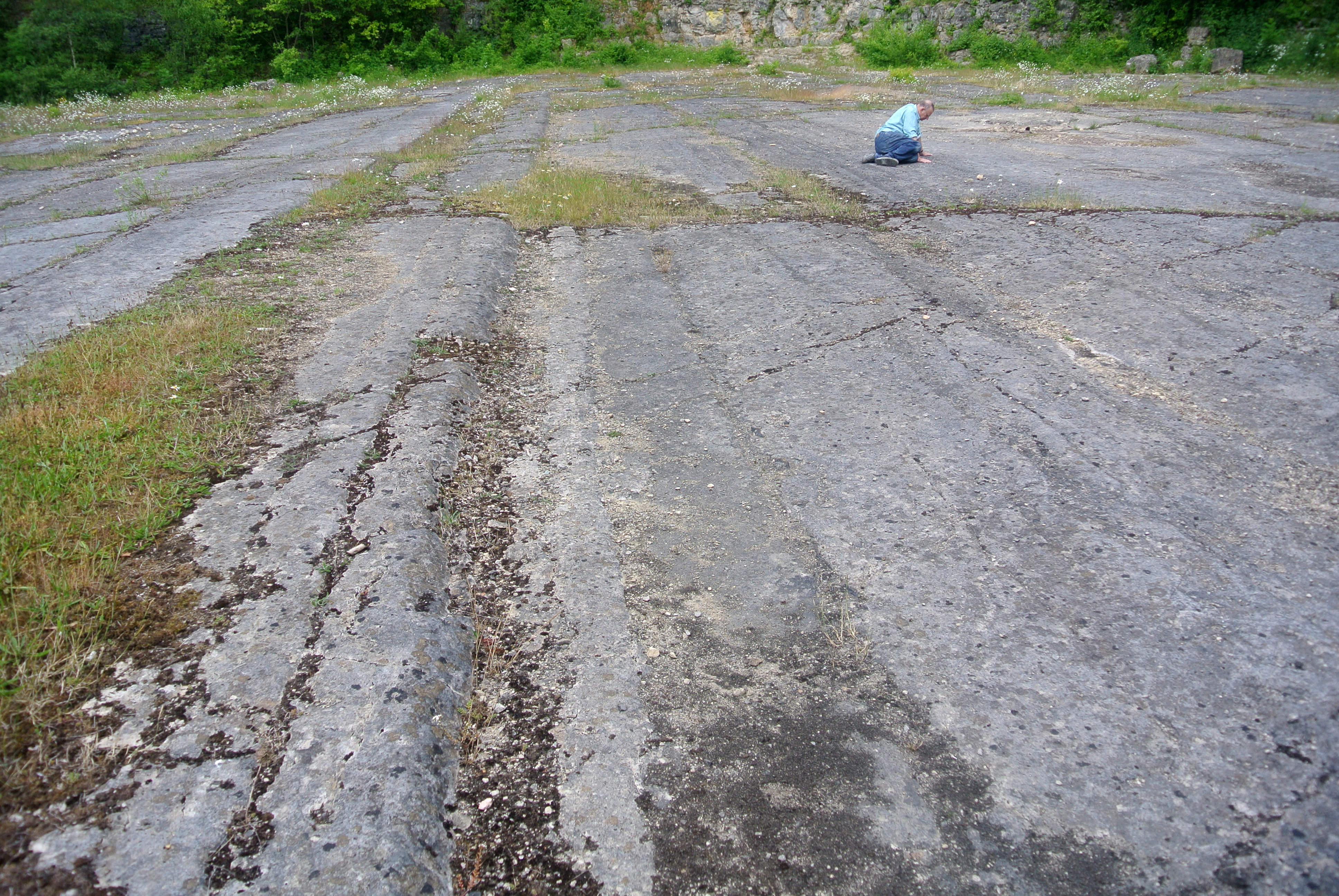 Carboniferous/Jurassic unconformity surface at Tedbury Camp, near Great Elm, Somerset.